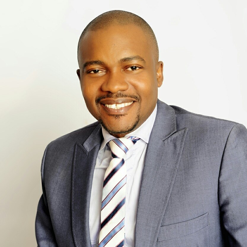 Unionist, Activisit, Polititian